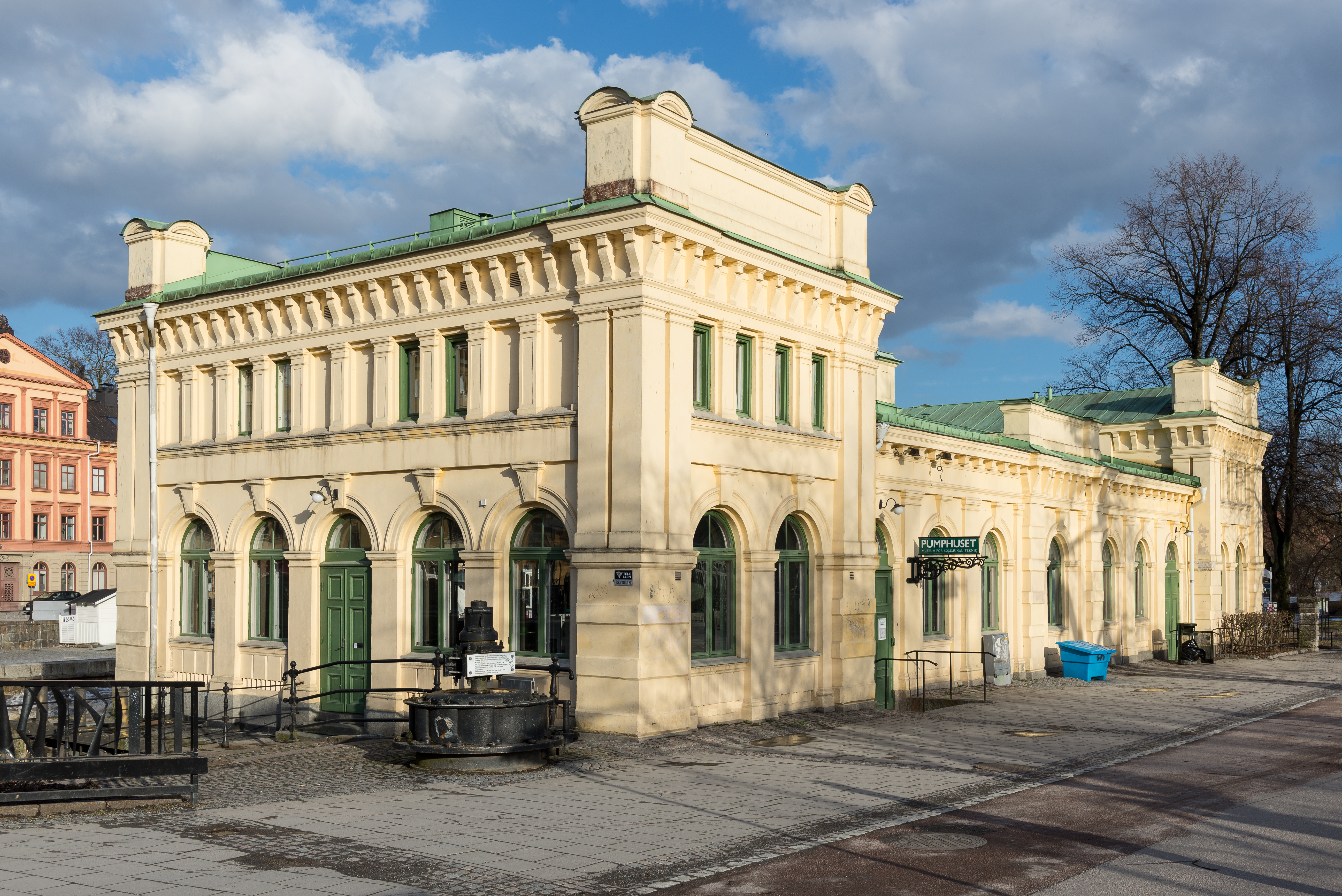 Pumphuset, a historic Water pumping station in Uppsala, Sweden. Today a museum.